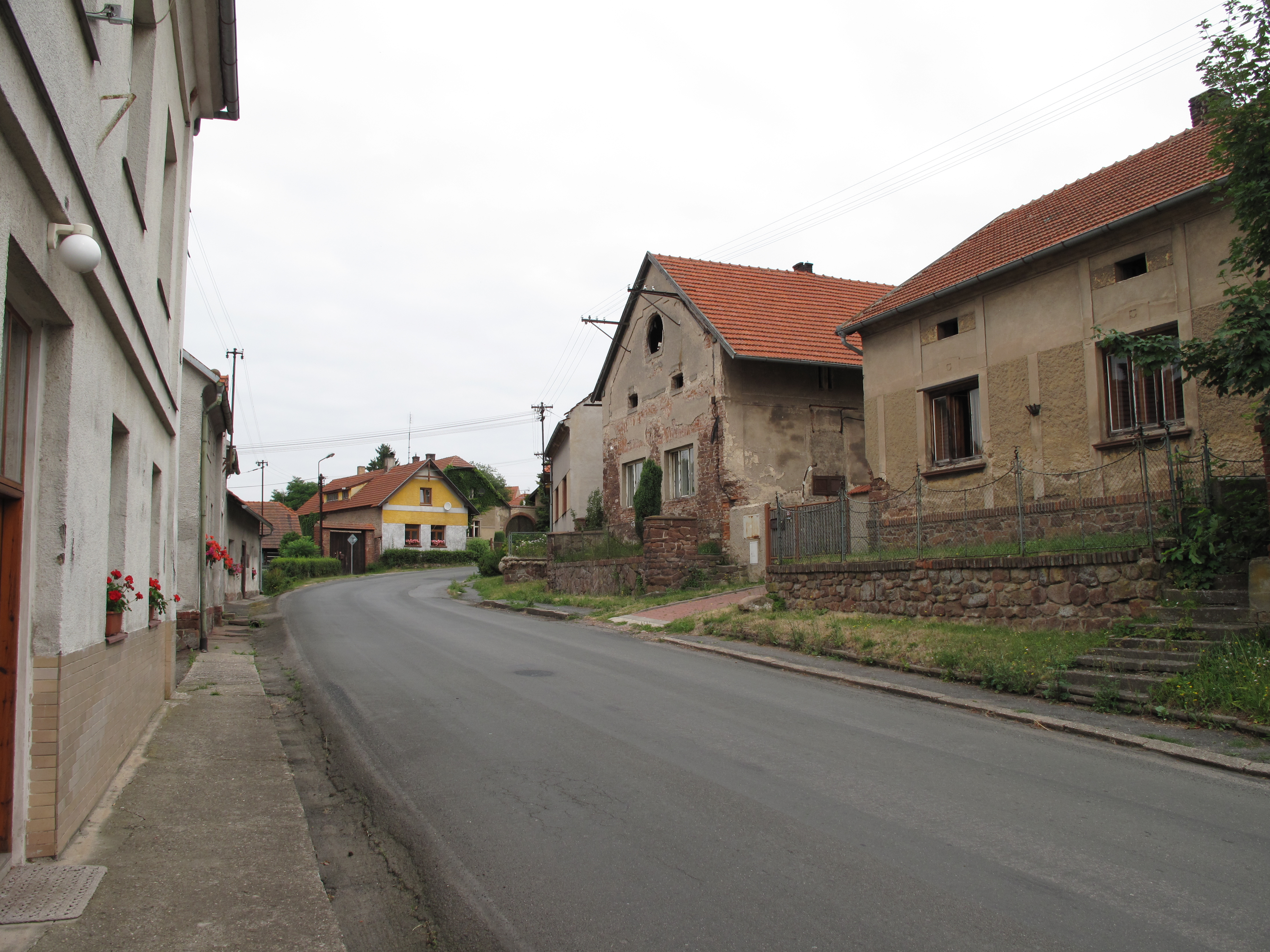 This photograph was taken within the scope of the second year of the 'Czech Municipalities Photographs' grant.